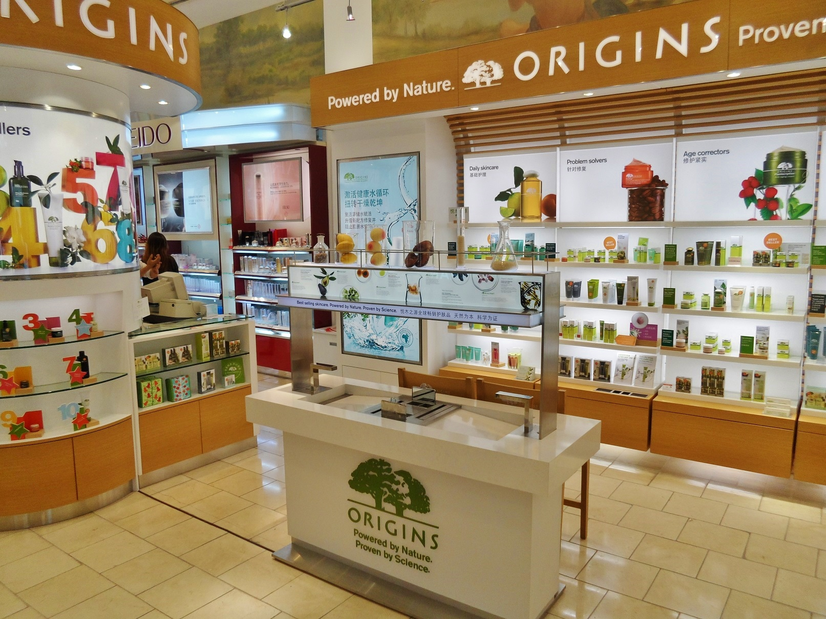 Origins natural skincare counter at DFS Galleria Customhouse in Auckland in 2013.